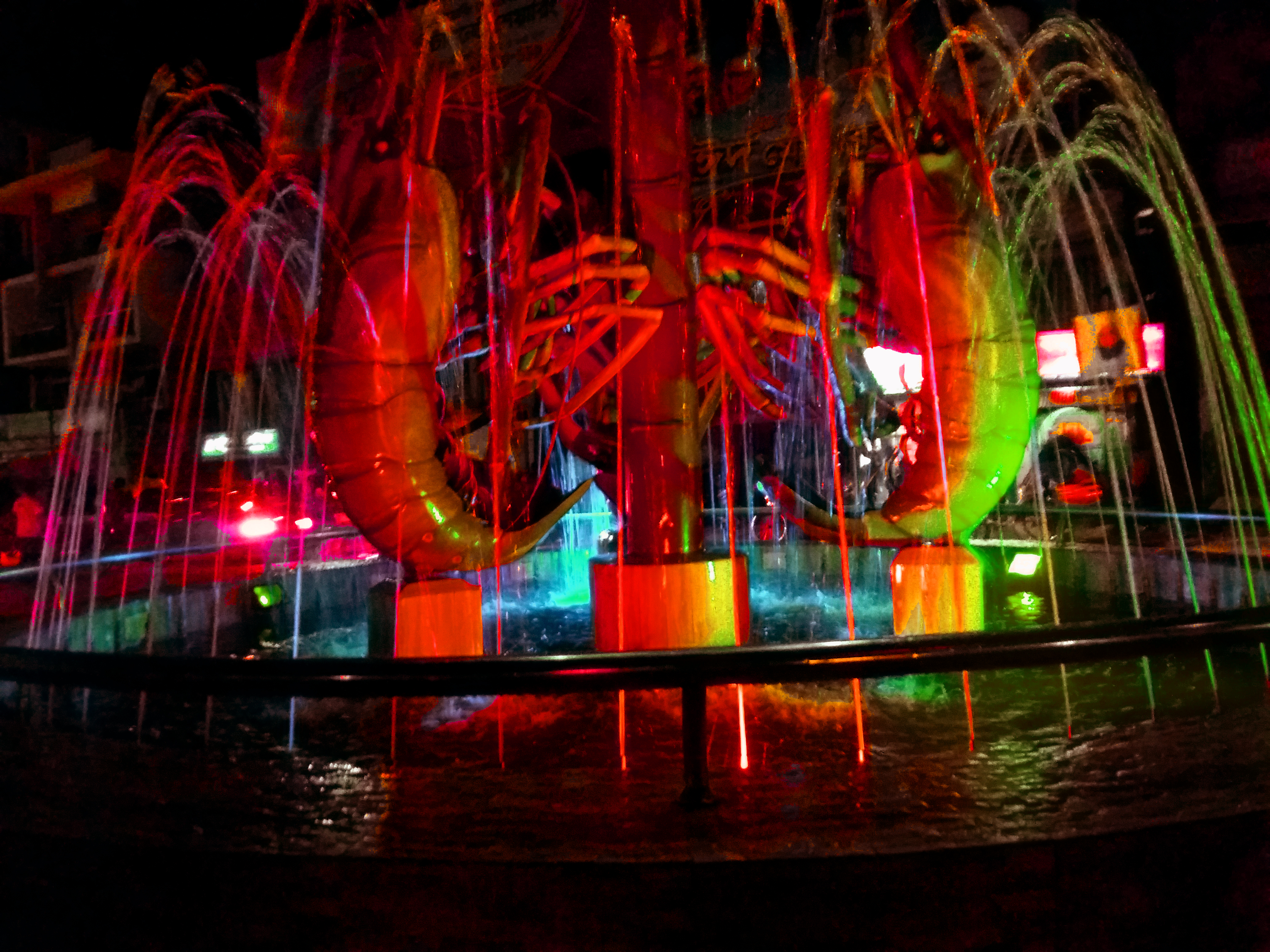 This picture is famous point of khulna named royal er mor